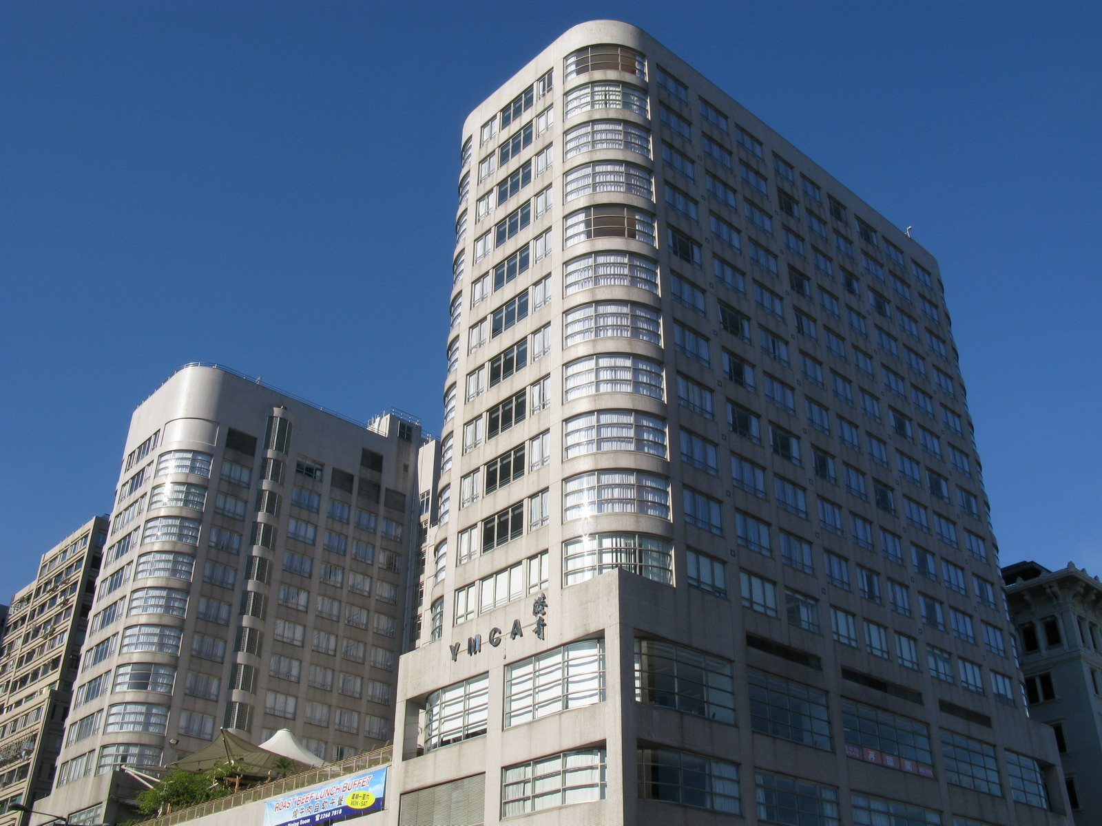 The Salisbury YMCA of Hong Kong